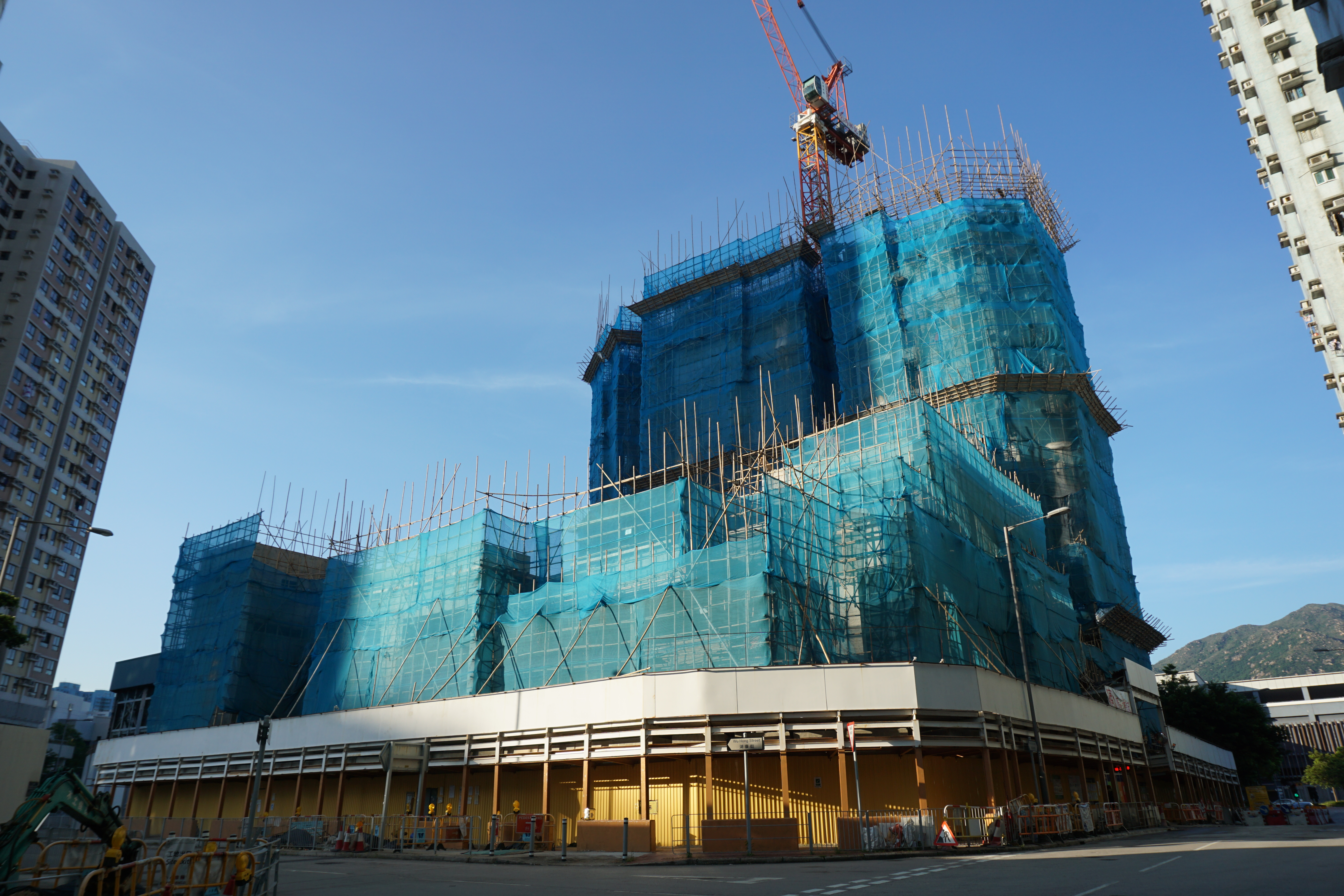 2gether in Tuen Mun, Hong Kong.